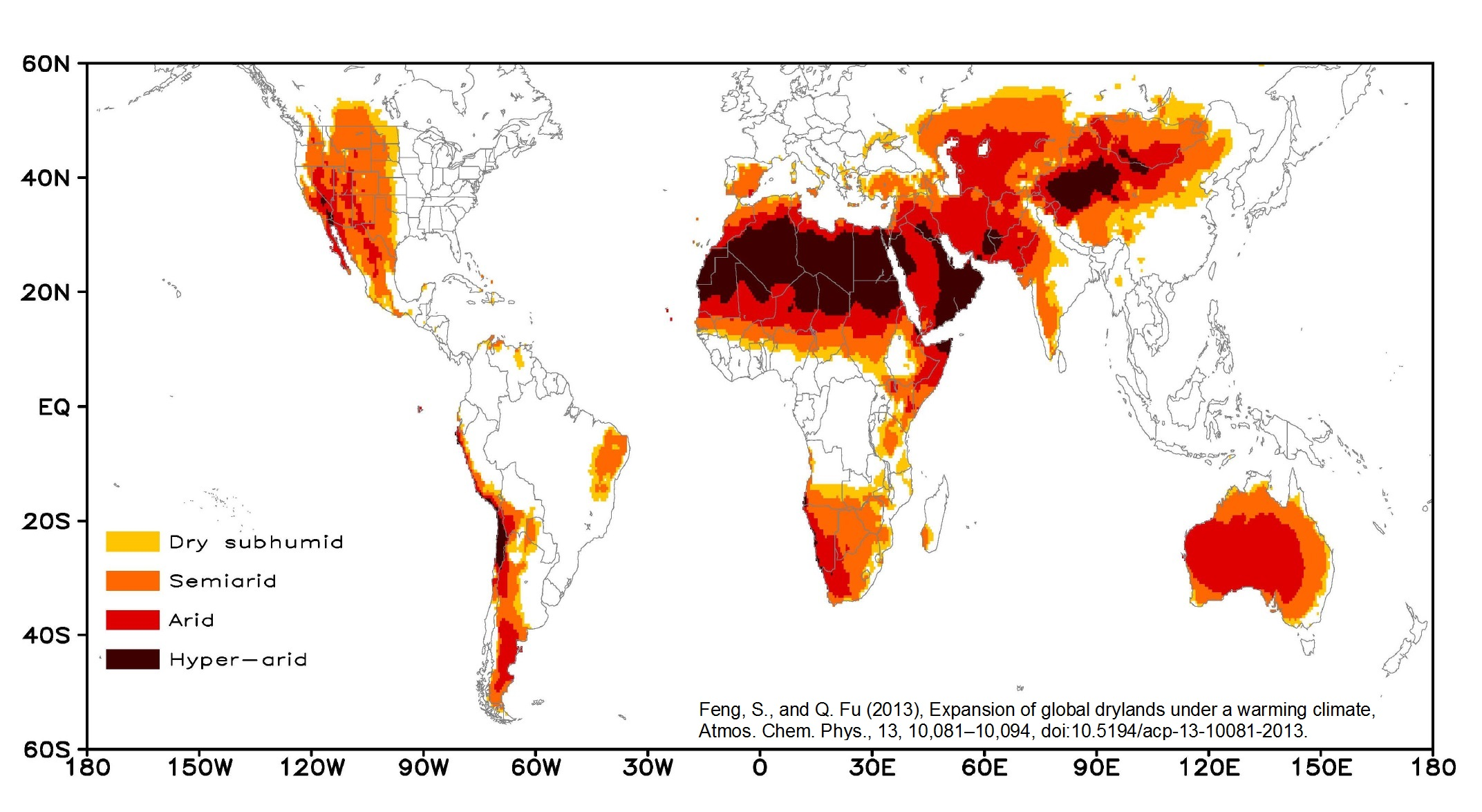 Global distribution of drylands from 1961-1990. Climatology derived from P/PET ratio based on observations.